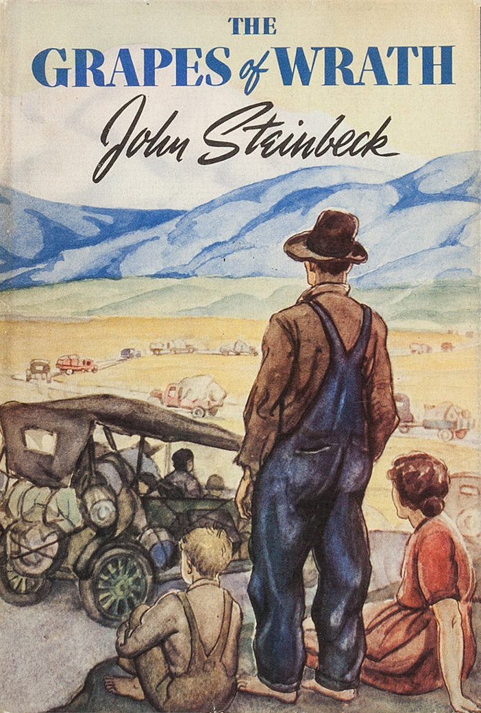 First-edition dust jacket cover of The Grapes of Wrath (1939) by the American author John Steinbeck.